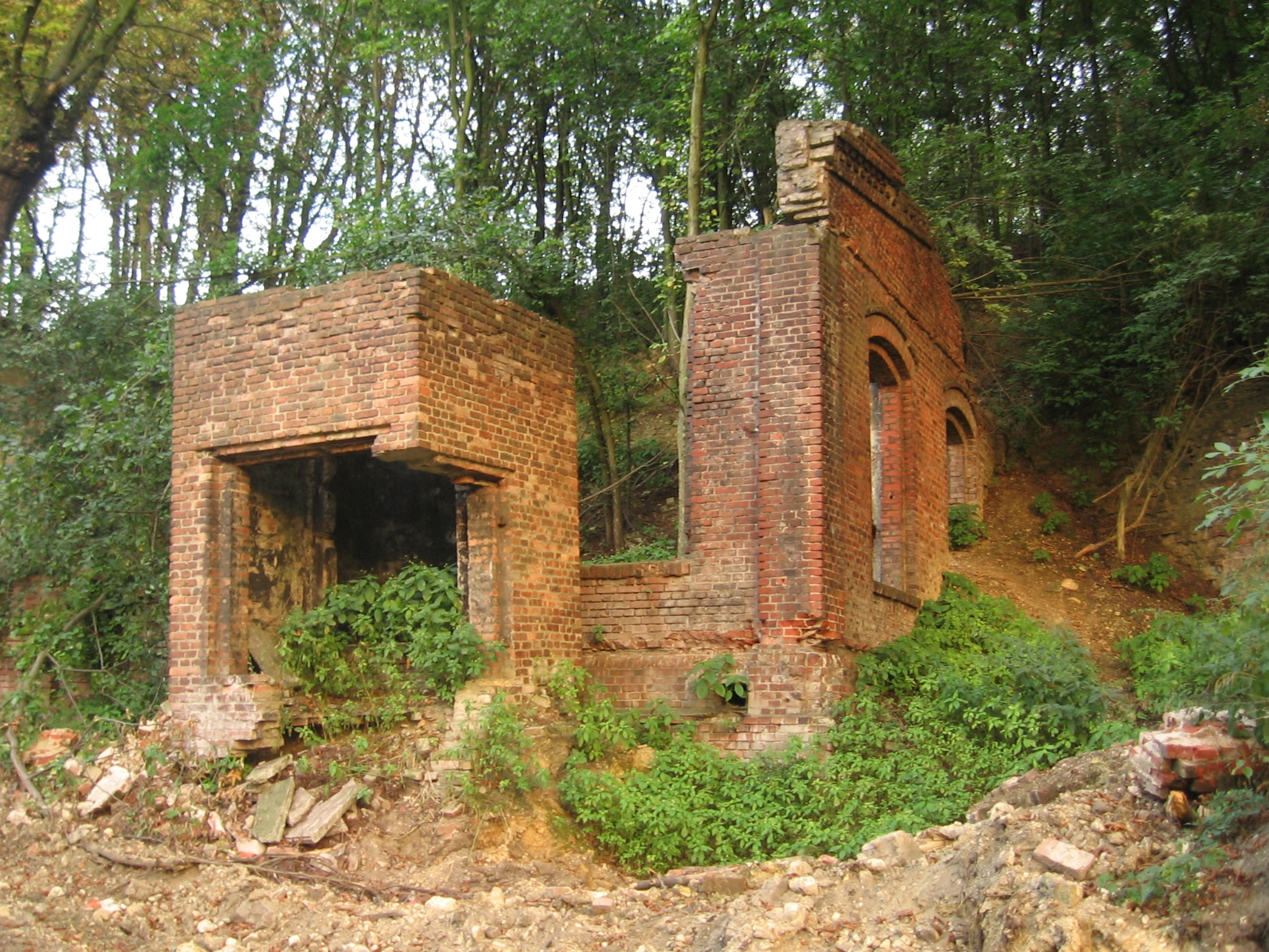 The remainings of coal mine Łagiewniki in Bytom, Poland.